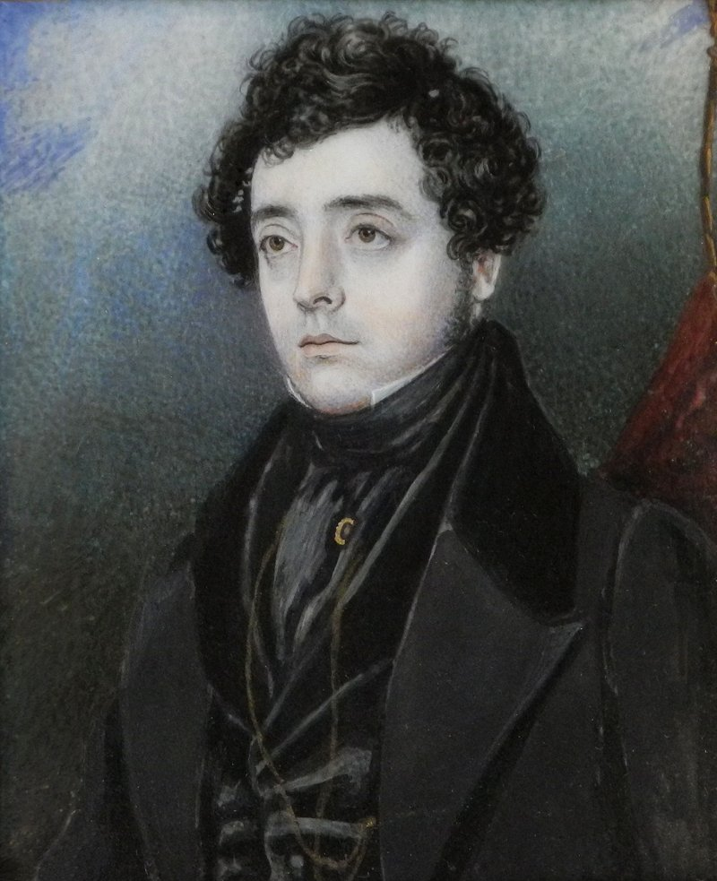 William Barber, 5th Chief Engraver of the U.S. Mint, c. 1840s